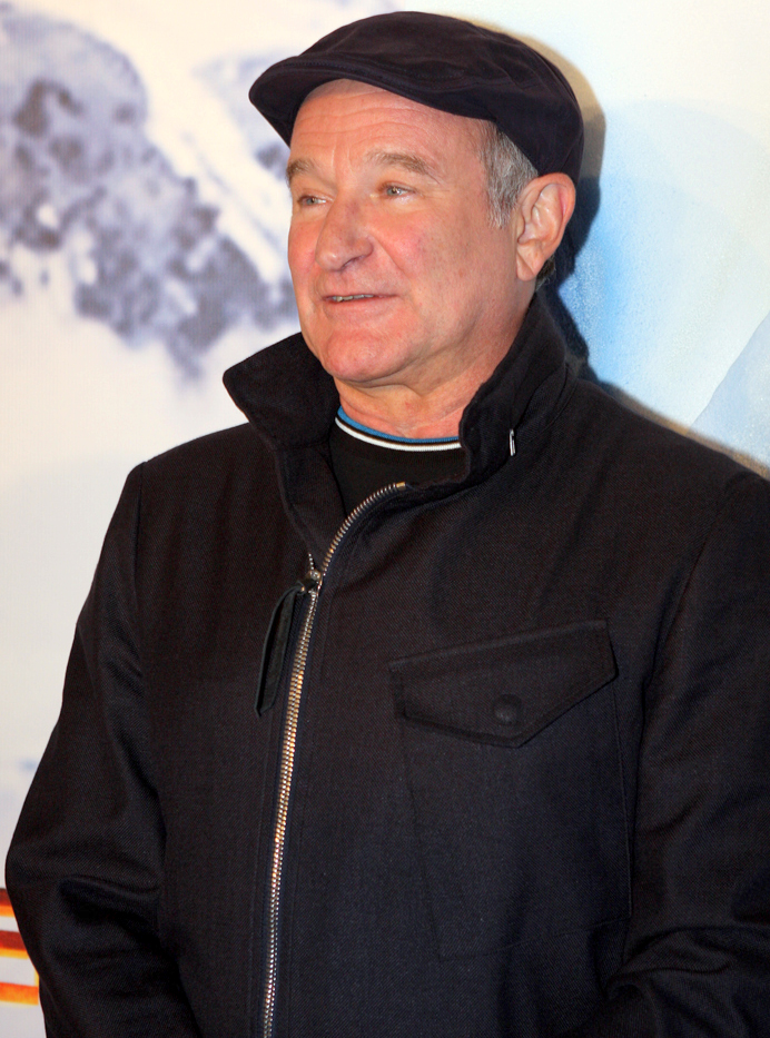 Robin Williams at the Happy Feet Two Australian Premiere 2011.